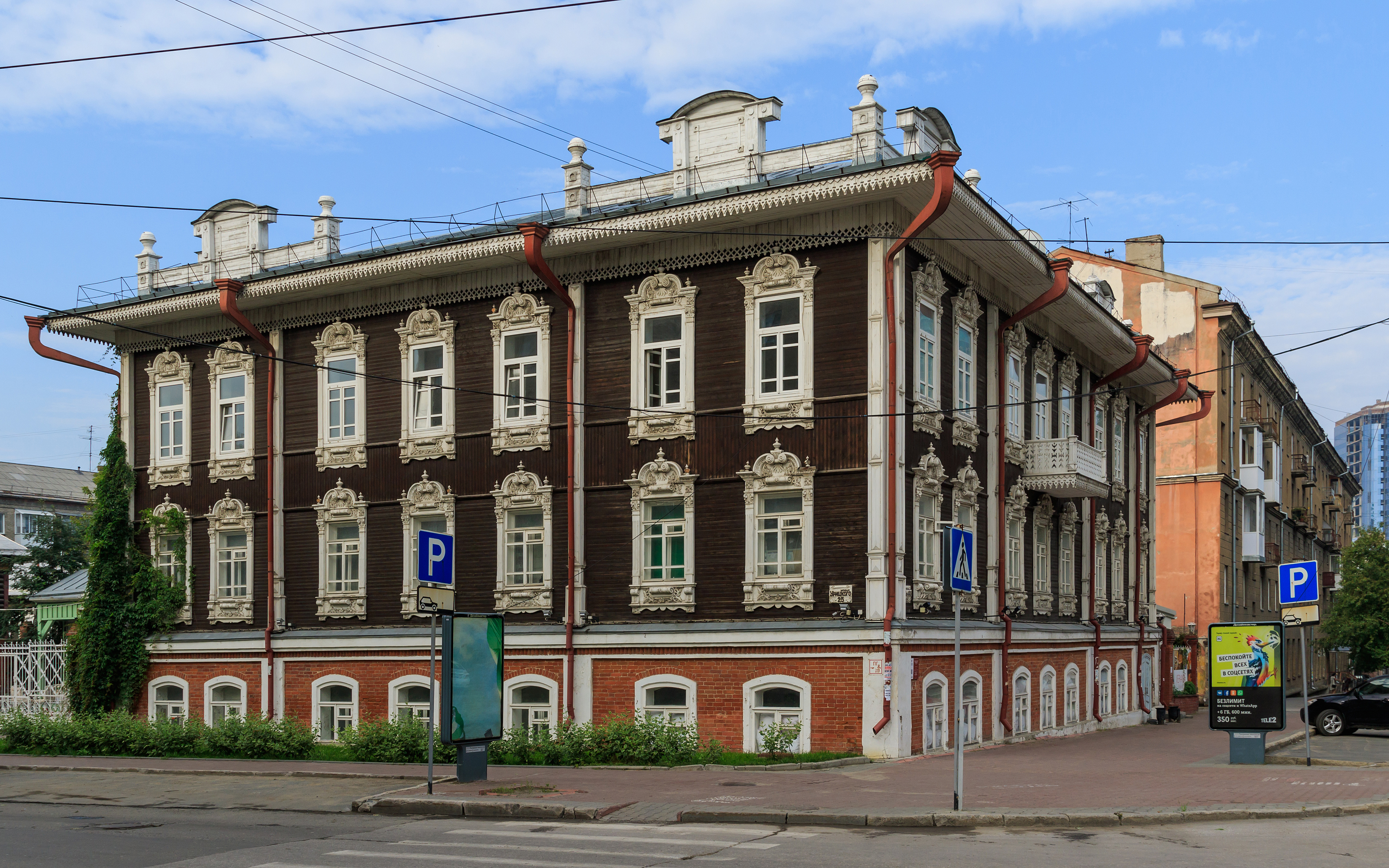 Wooden house (listed) at Lenina Street in Novosibirsk, Russia